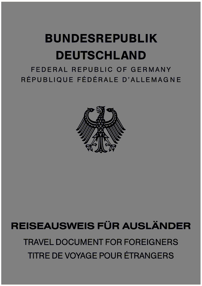 Front of the German passport for foreigners